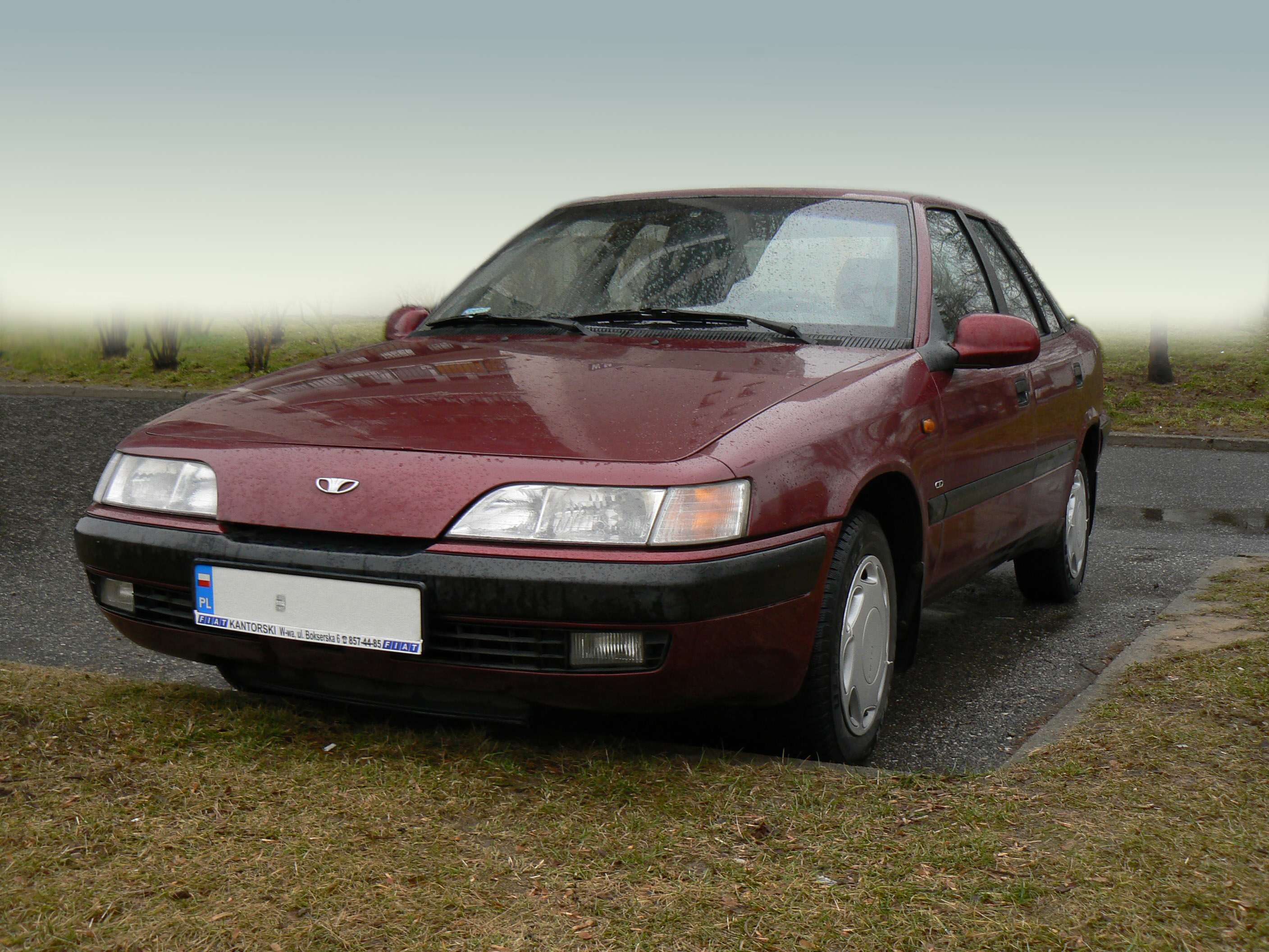 Daewoo Espero, photographed in Warsaw, Poland.